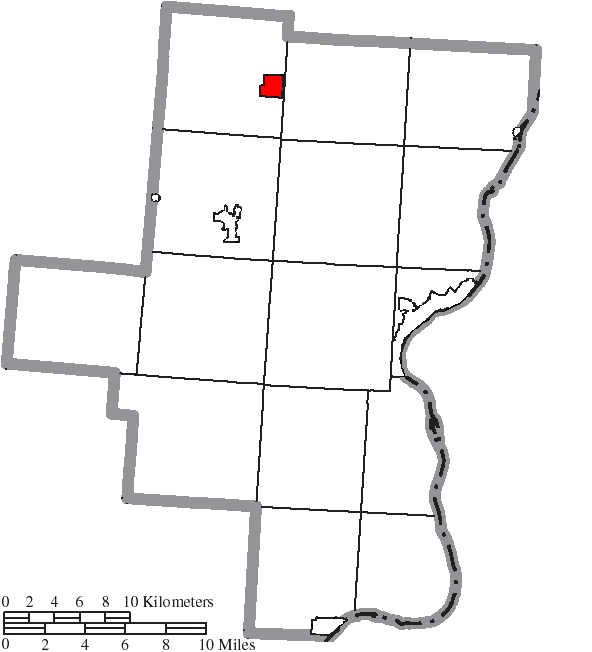 Map of the municipal and township boundaries of Gallia County, Ohio, United States, as of the 2000 census, with the location of the village of Vinton highlighted. Township borders are shown only in unincorporated areas in order to differentiate incorporated and unincorporated areas more clearly.